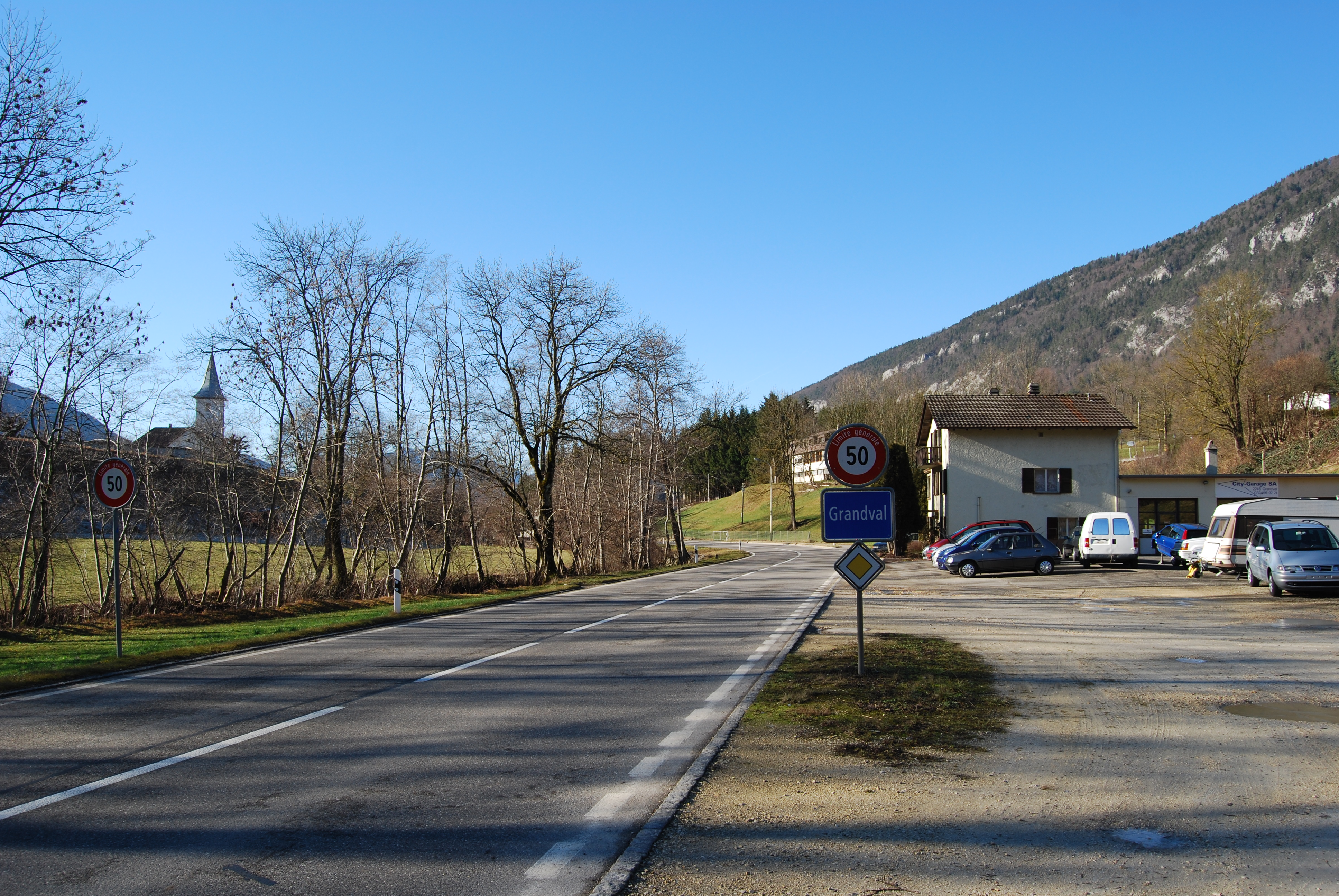 Grandval, canton of Bern, Switzerland